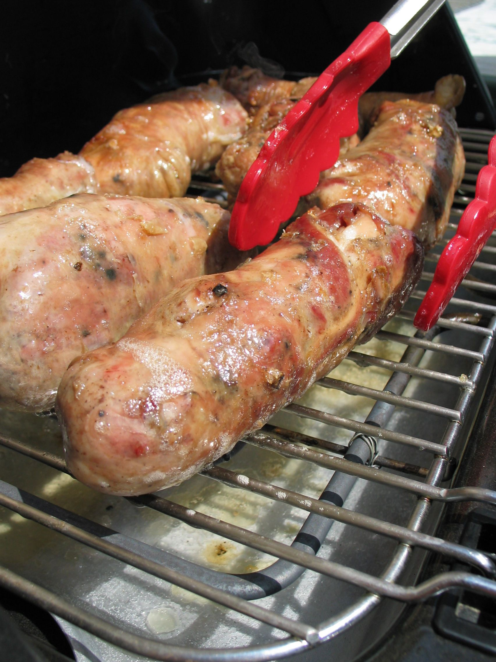 French andouillettes from Troyes.